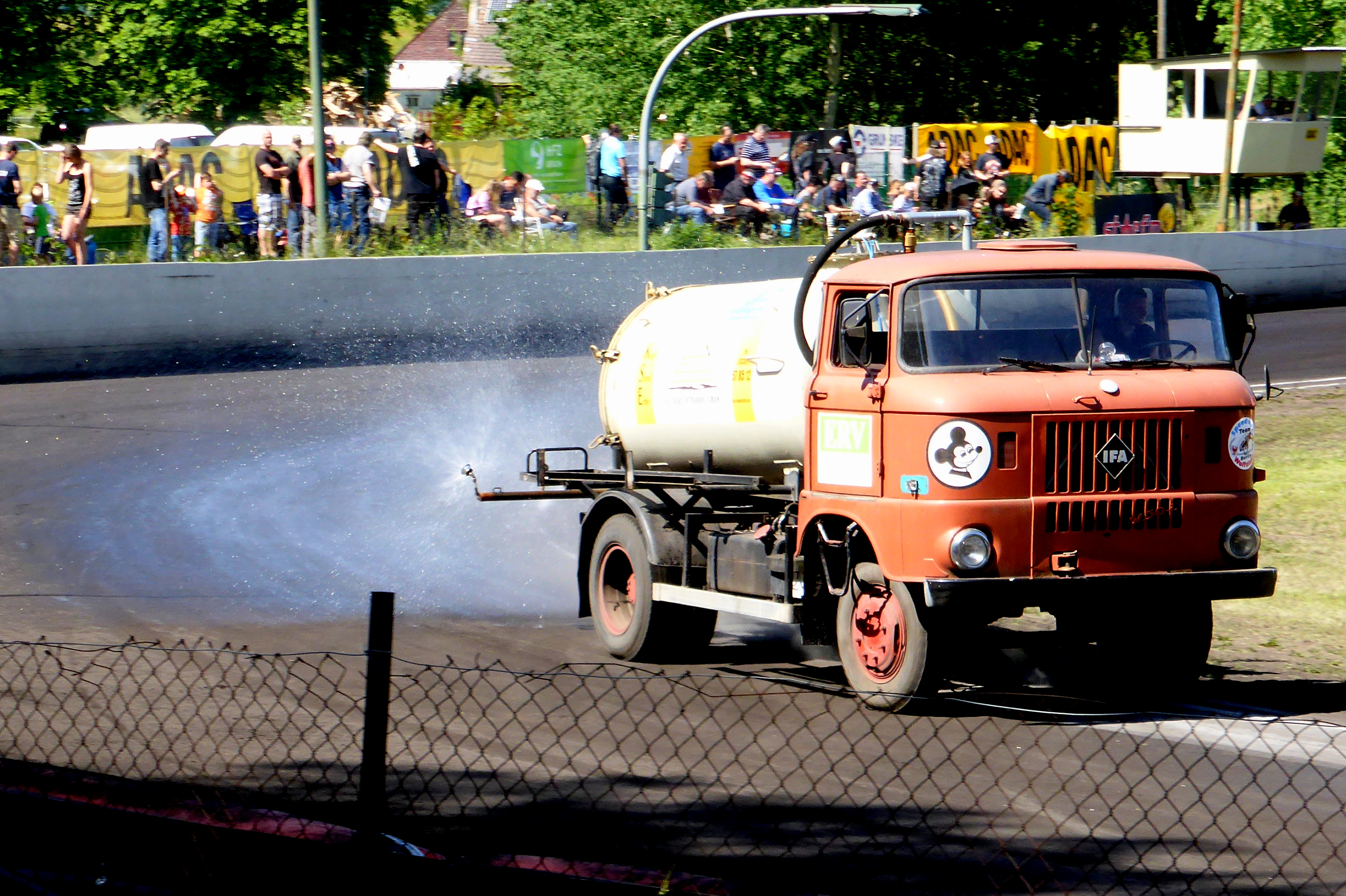 German Speedway Bundesliga. Wolfslake Falubaz Berlin vs Nordstern Stralsund in Wolkfslake.